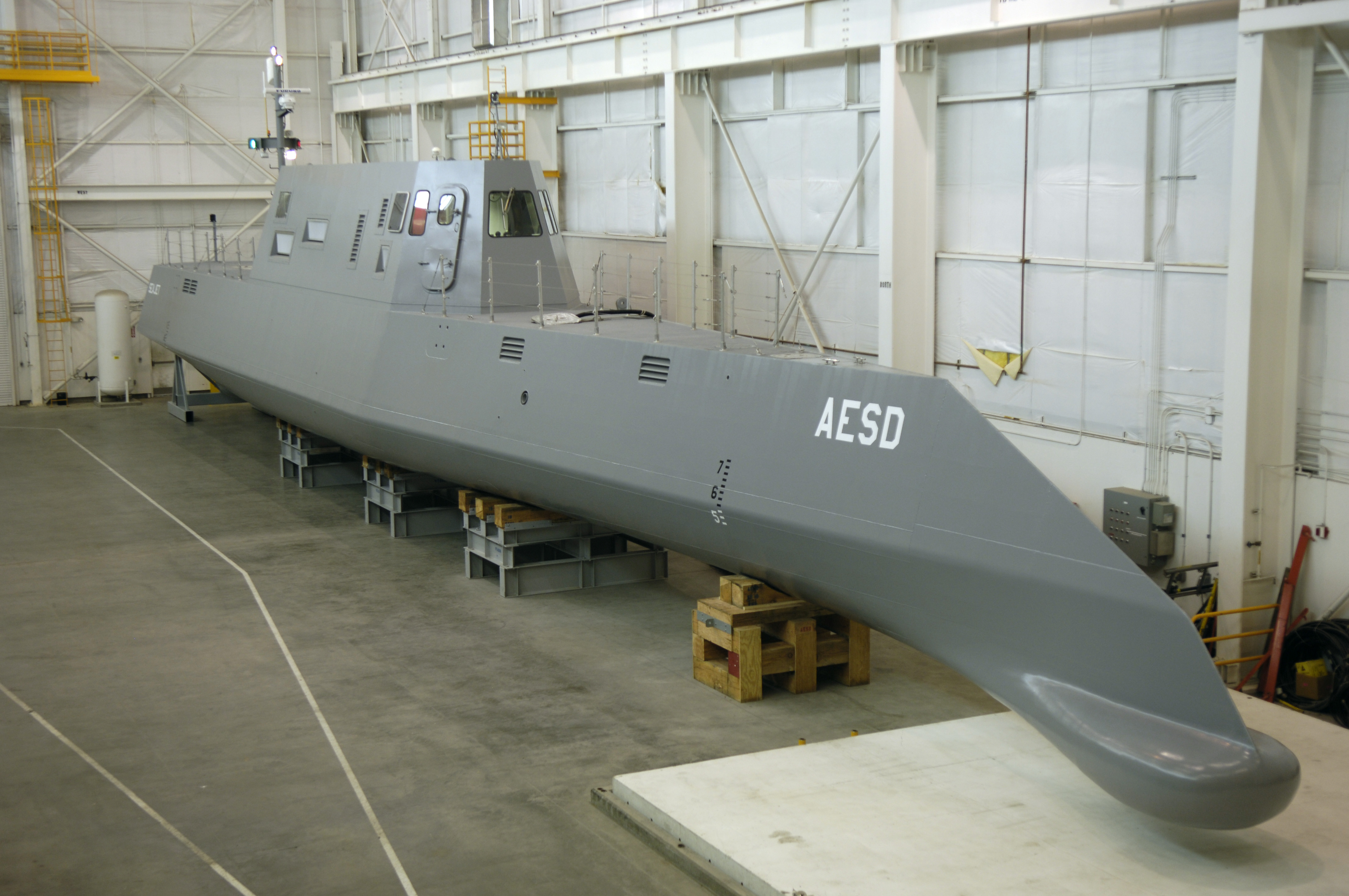 Bayview, Idaho (Aug. 23, 2005) - The Advanced Electric Ship Demonstrator (AESD), Sea Jet, funded by the Office of Naval Research (ONR), is a 133-foot vessel located at the Naval Surface Warfare Center Carderock Division, Acoustic Research Detachment in Bayview, Idaho. Sea Jet will operate on Lake Pend Oreille, where it will be used for test and demonstration of various technologies. Among the first technologies tested will be an underwater discharge water jet from Rolls-Royce Naval Marine, Inc., called AWJ-21, a propulsion concept with the goals of providing increased propulsive efficiency, reduced acoustic signature, and improved maneuverability over previous Destroyer Class combatants. U.S. Navy photo by John F. Williams (RELEASED)